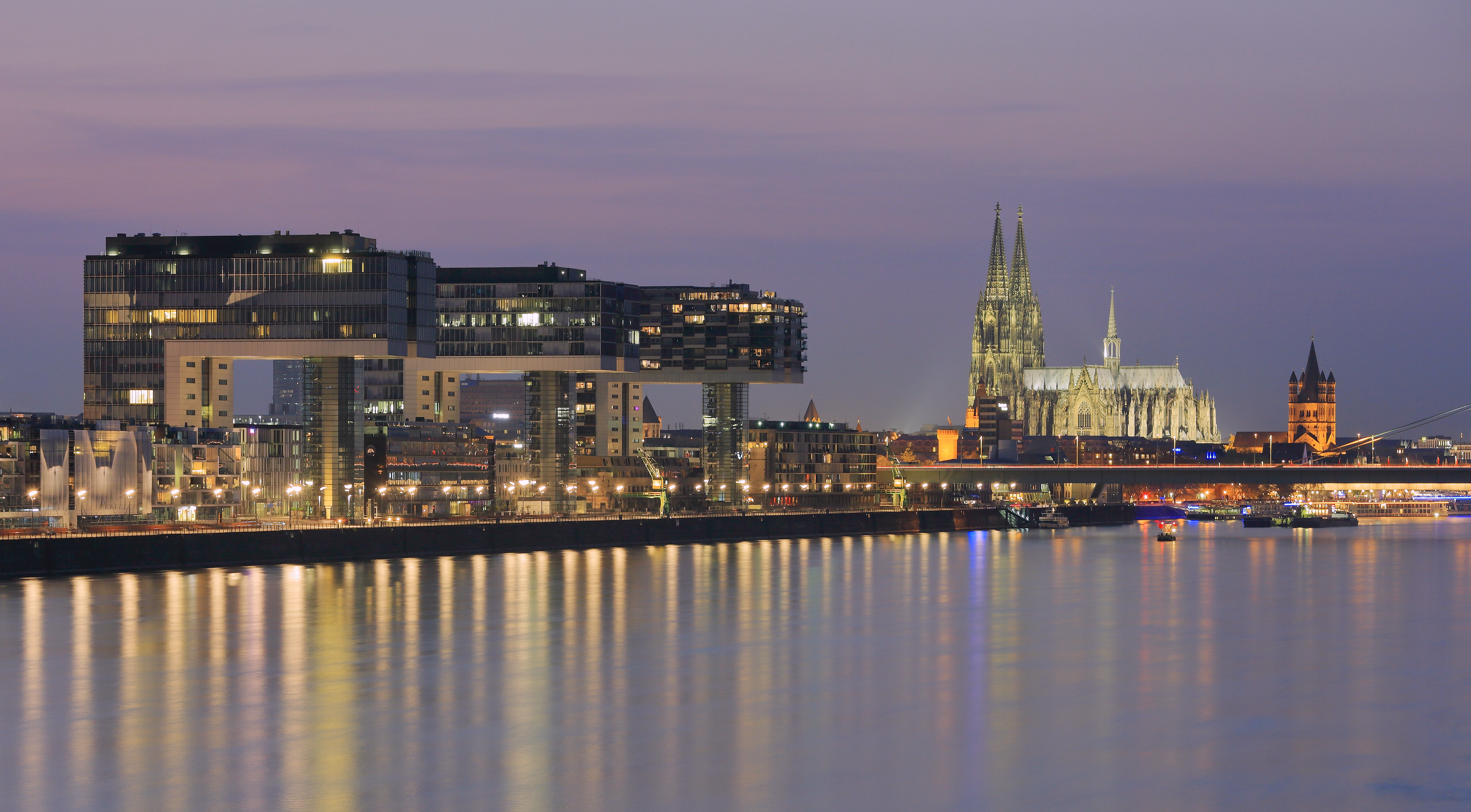 Panorama of Cologne, including the Kranhäuser and Cologne Cathedral, as seen from the Rhine.